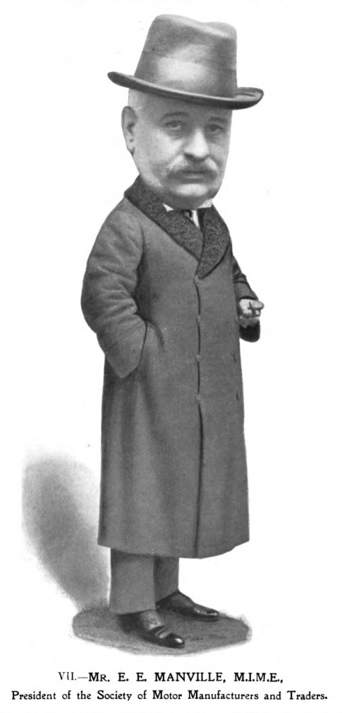 Sir Edward Manville 1909 President of the Society of Motor Manufacturers and Traders